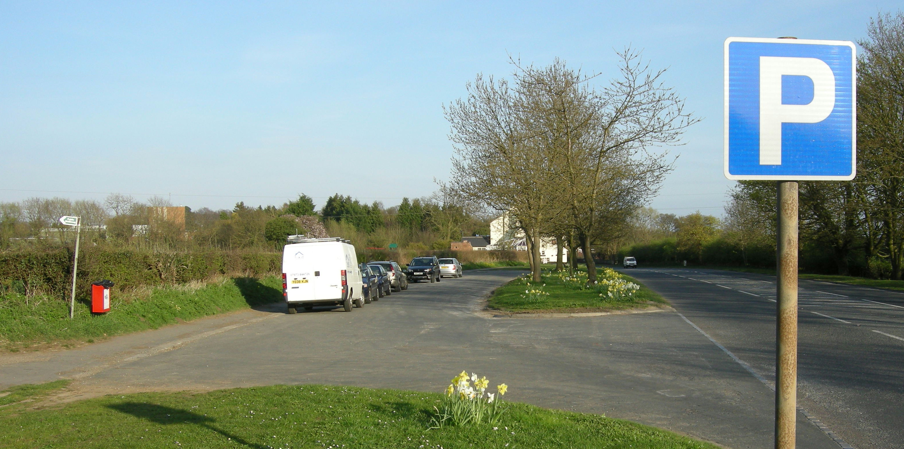 Merrybent layby, at the east end of the street settlement of Merrybent, County Durham, England. It is located on the A67, east of the A1 road bridge, between the bridge and the Baydale Beck pub. Photo taken on a Saturday afternoon.